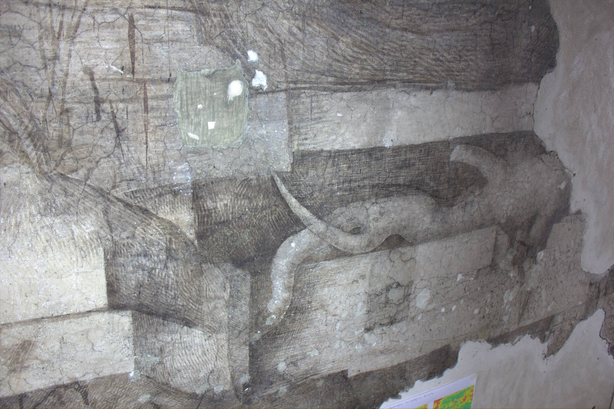 Current restoration works on Leonardo's monochrome